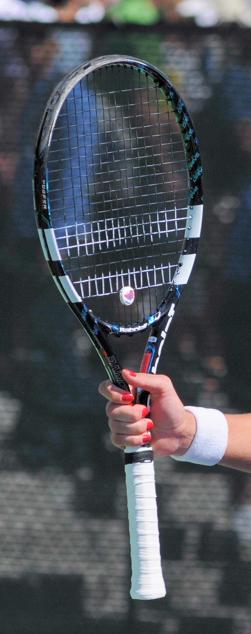 Racquet Babolat Pure Drive Plus, 2012 version.